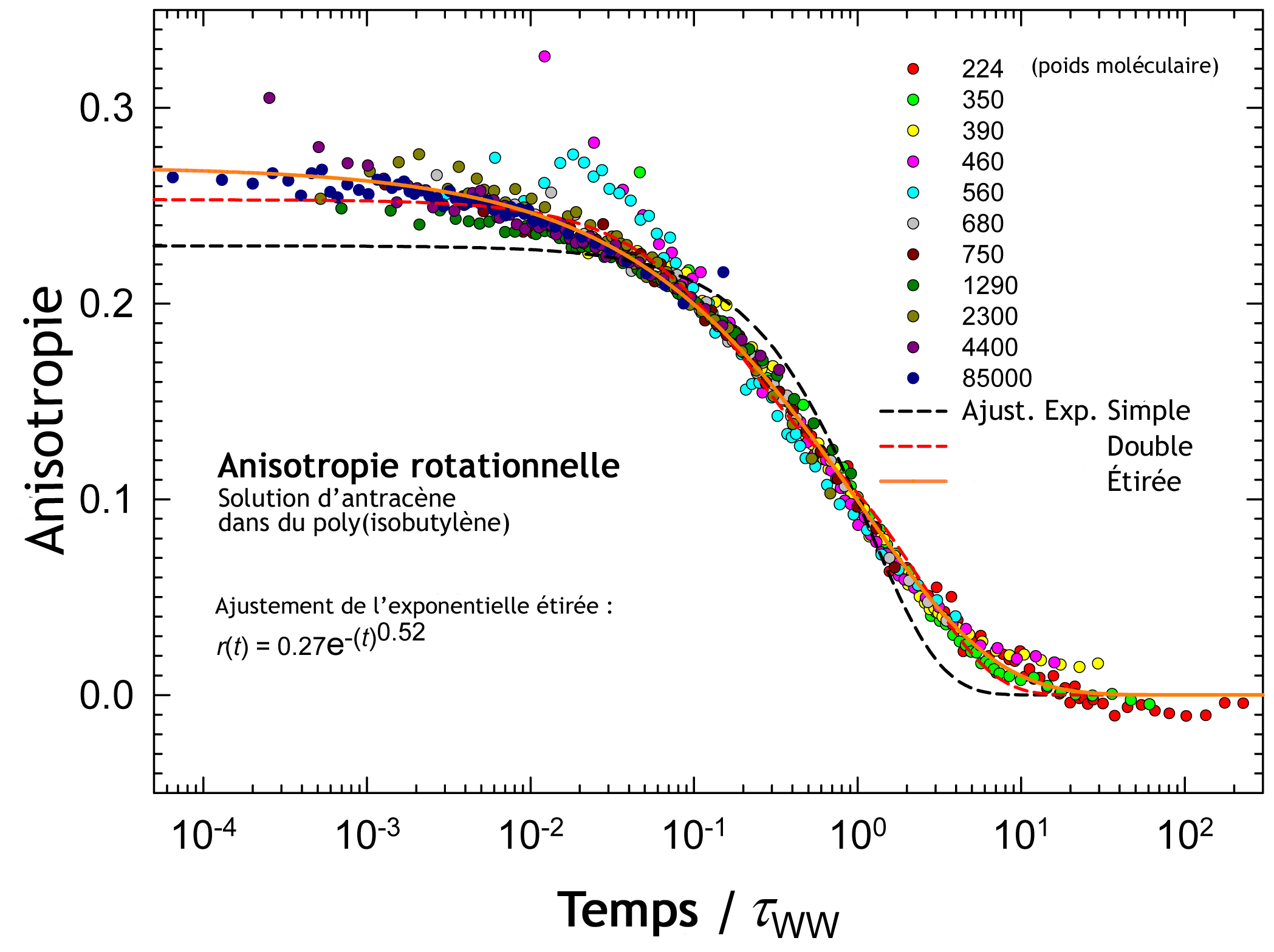 master plot of rotational anisotropy of anthracene in polyisobutylene of various molecular weights